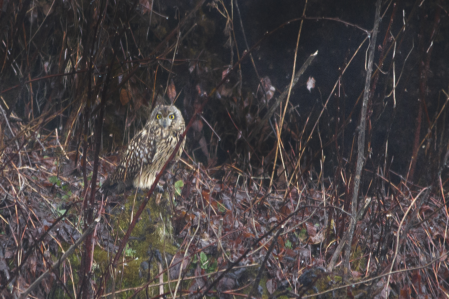 The species Short-eared Owl had been photographed from Pangolakha Wildlife Sanctuary in East Sikkim, India on 06.04.2016.